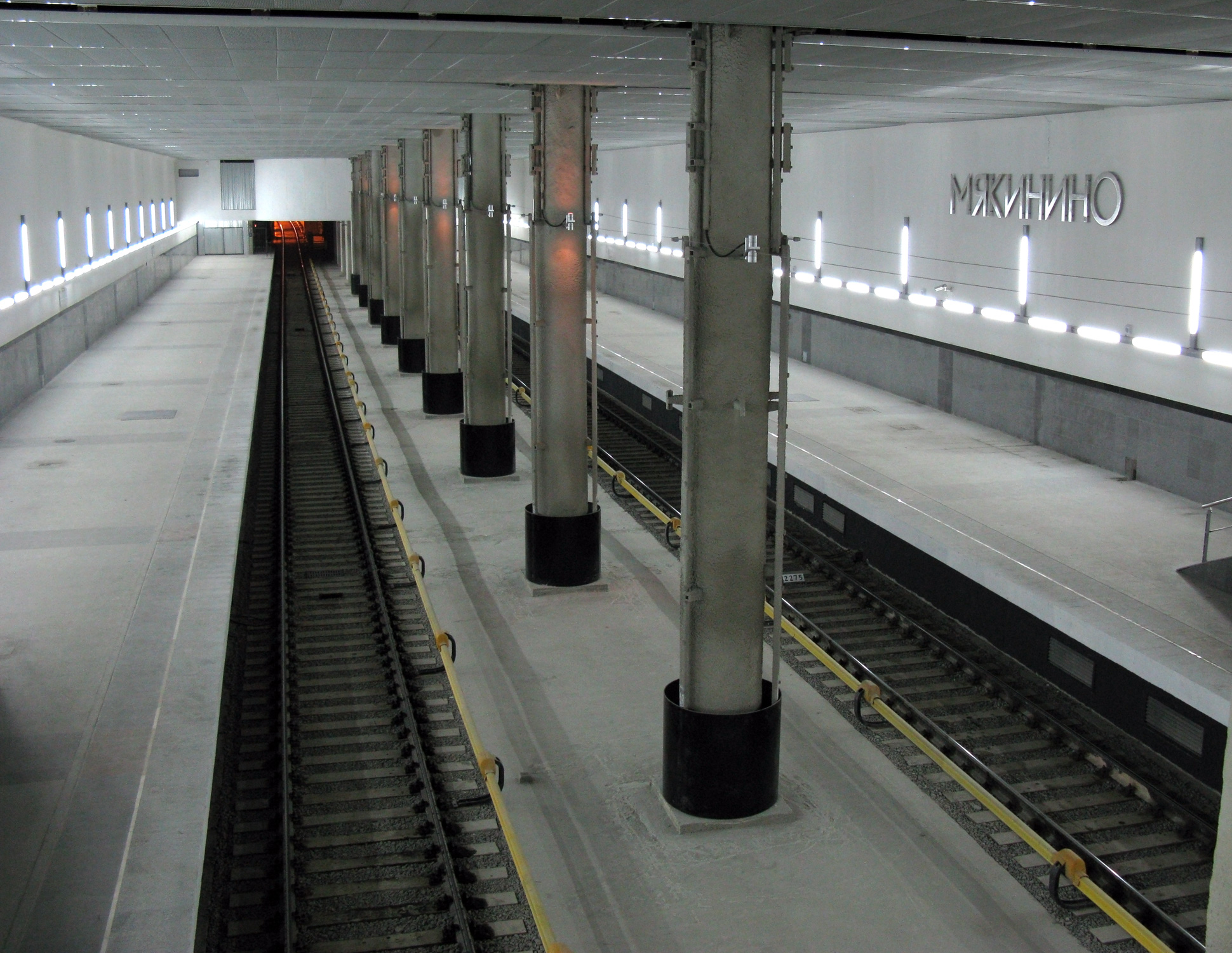 Myakinino station of Moscow Metro